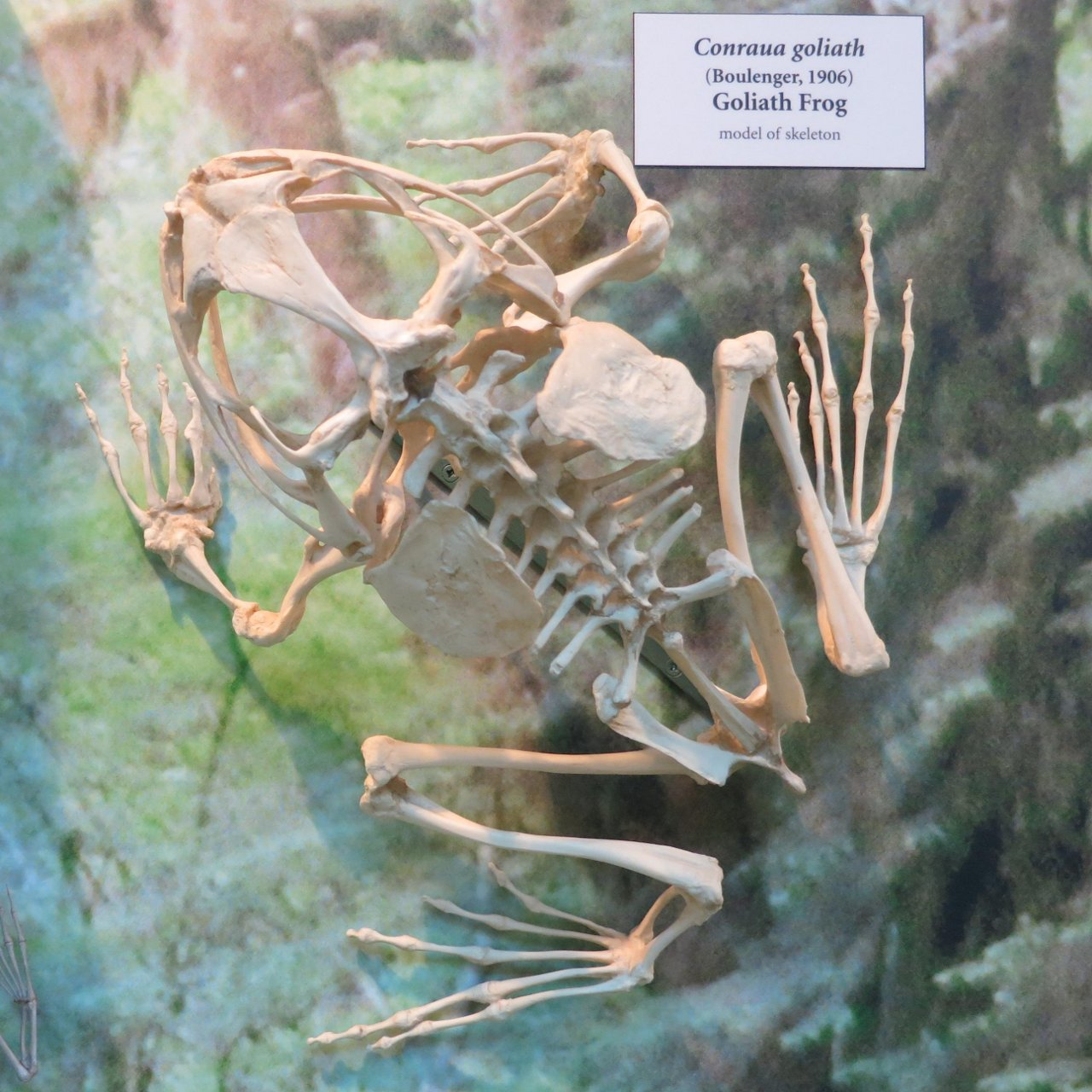 Model of a goliath frog skeleton at Oxford University Museum of Natural History